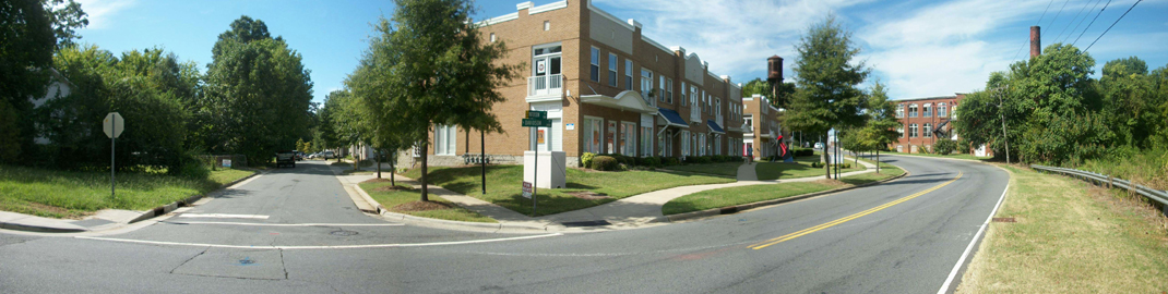 North Charlotte's Neighborhood in Mecklenburg Mill Village